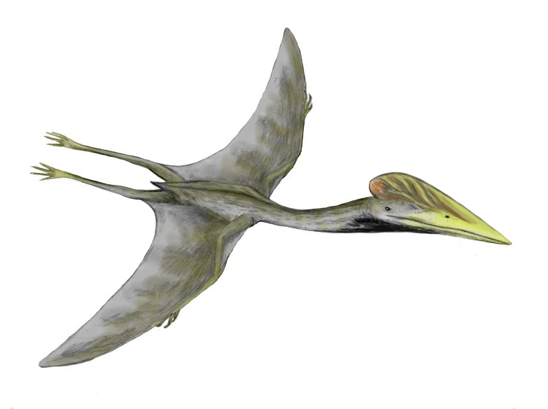 Hatzegopteryx thambema, a pterosaur from the Late Cretaceous of Romania, pencil drawing